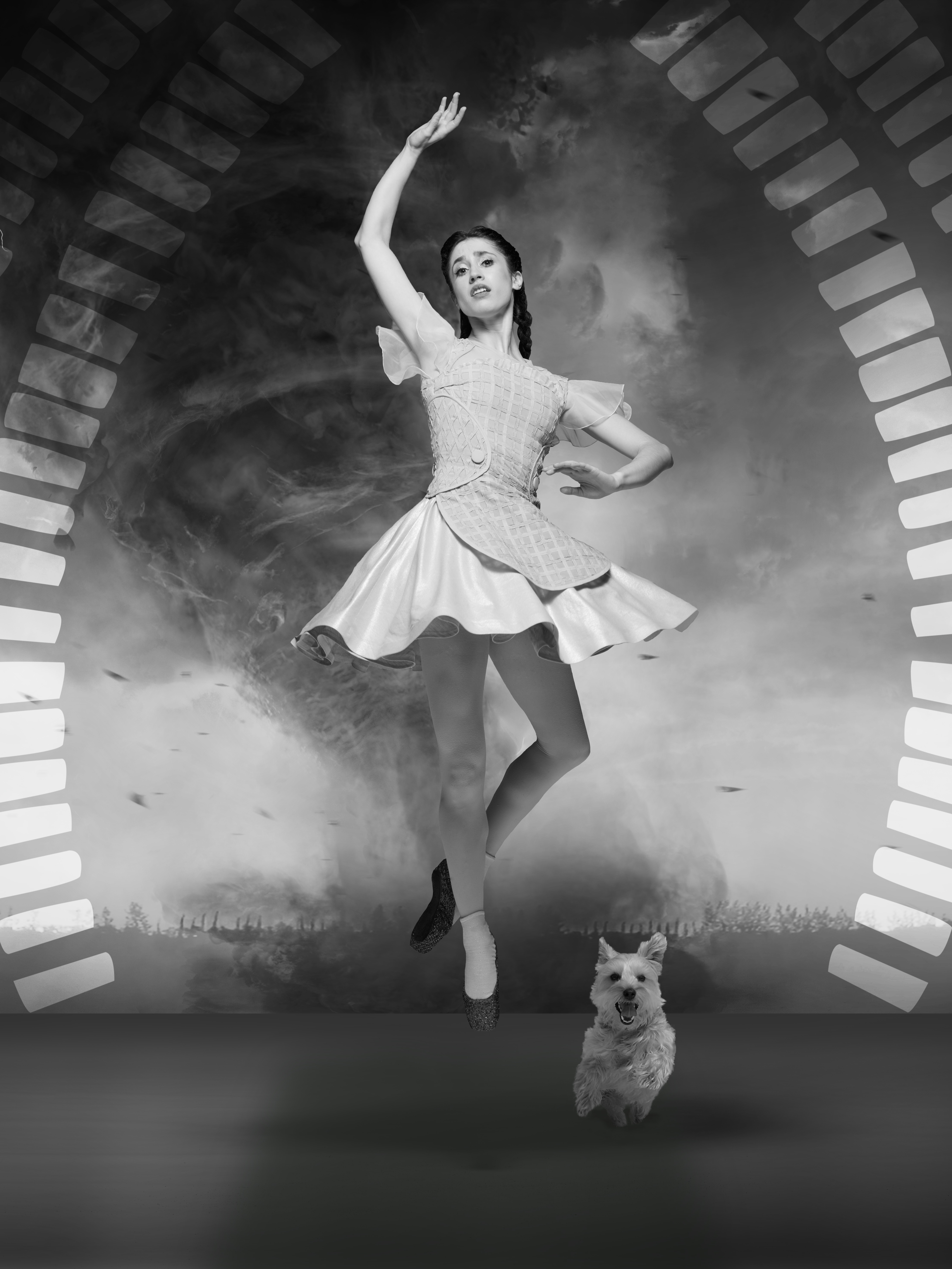 Dancer: Amanda DeVenuta. Photography: Kenny Johnson. Choreography by Septime Webre. Story lines and visual elements from the classic motion picture provided by Warner Bros. Theatre Ventures.